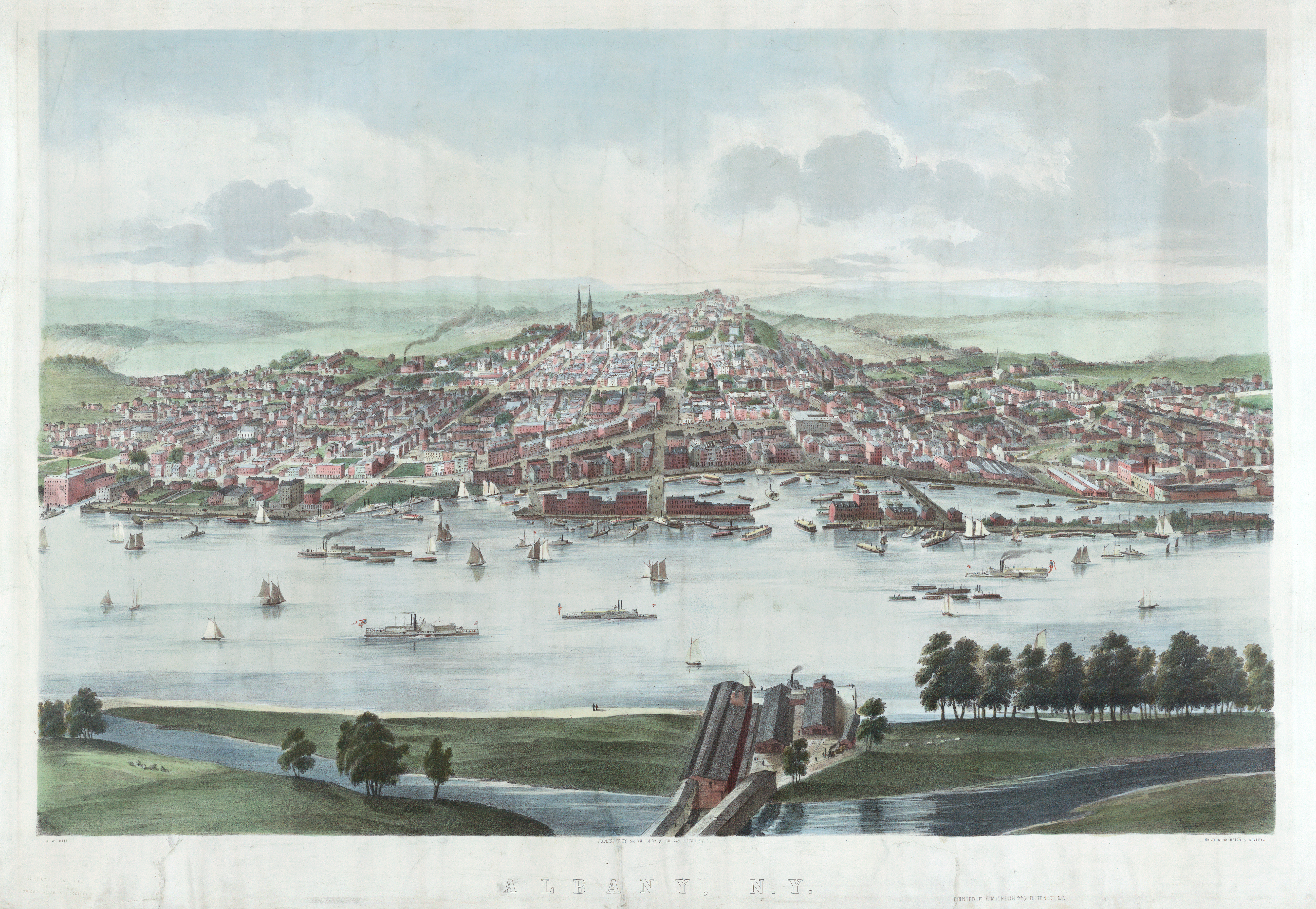 Lithograph of Albany, New York, United States.